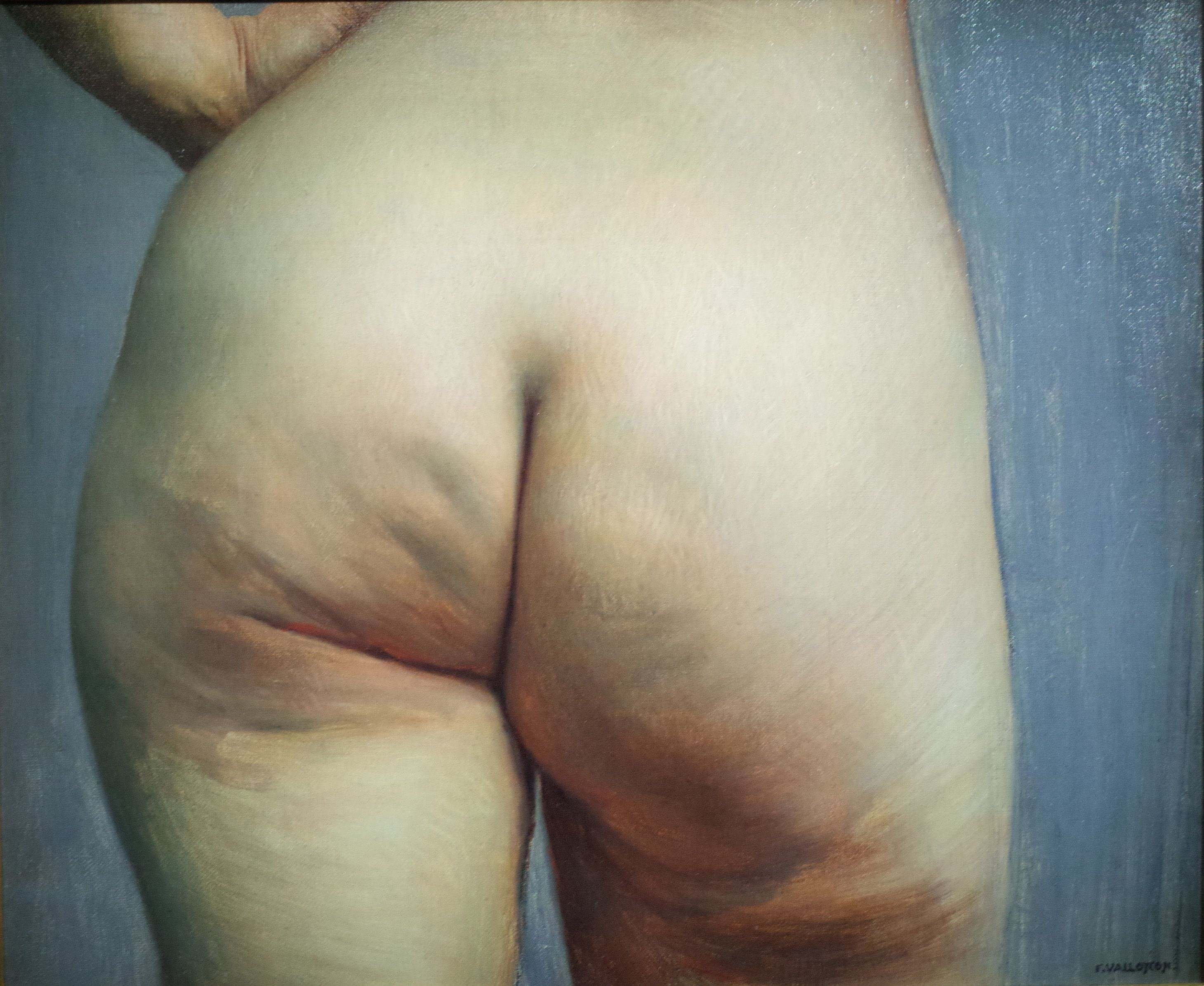 Buttocks and left hand on hip.